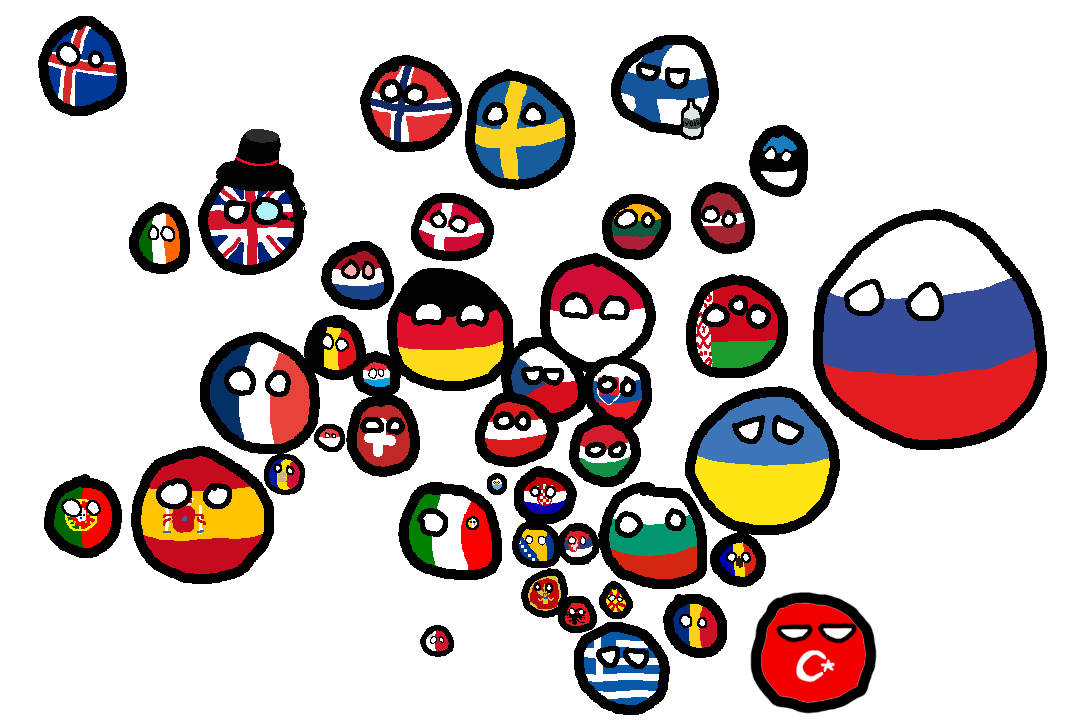 Countryballs of europe